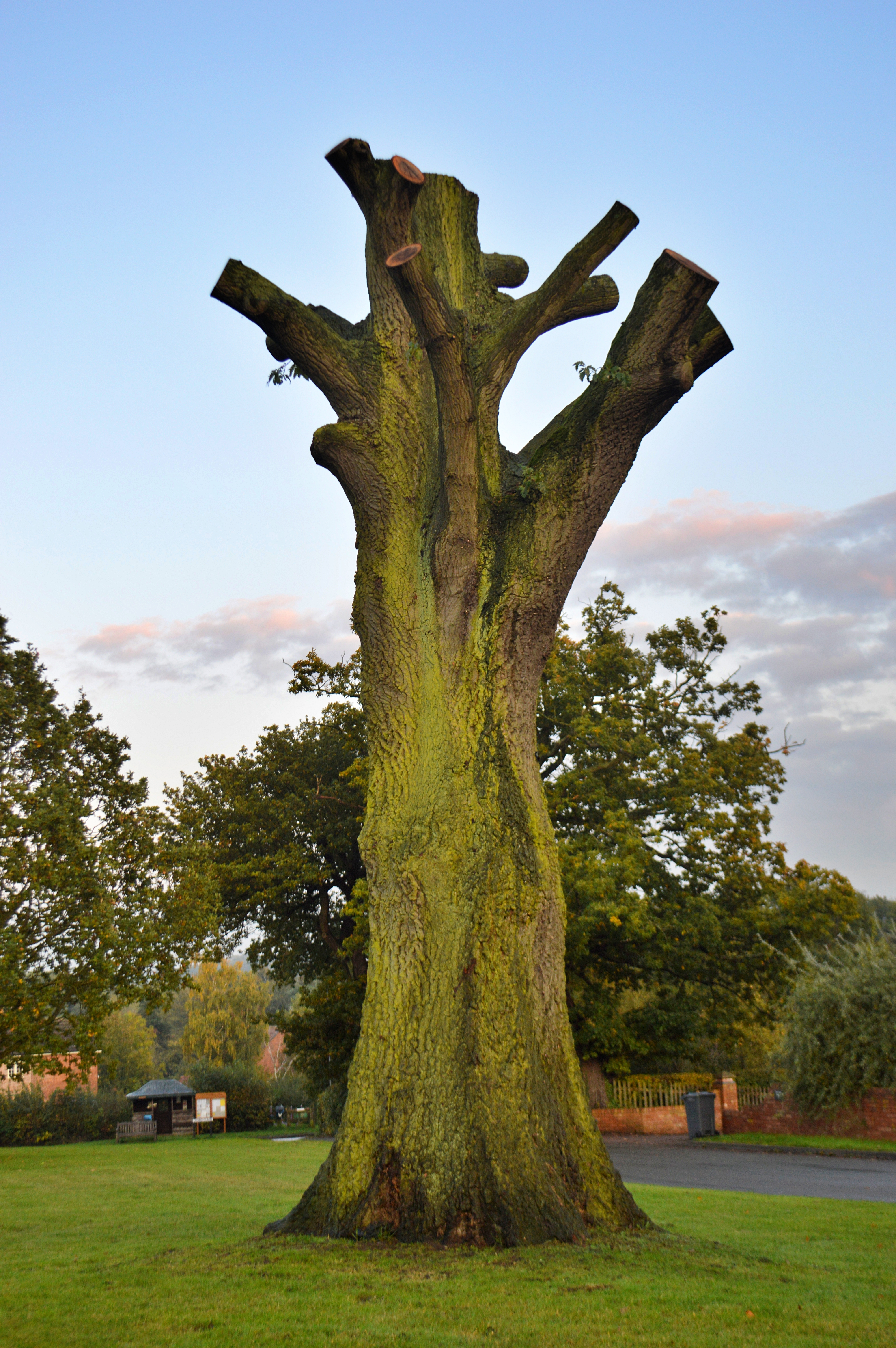 The Turkey Oak that stood on the village green at Old Dalby was found,in 2019, to be diseased. Residents decided to pollard the oak rather than felling outright.